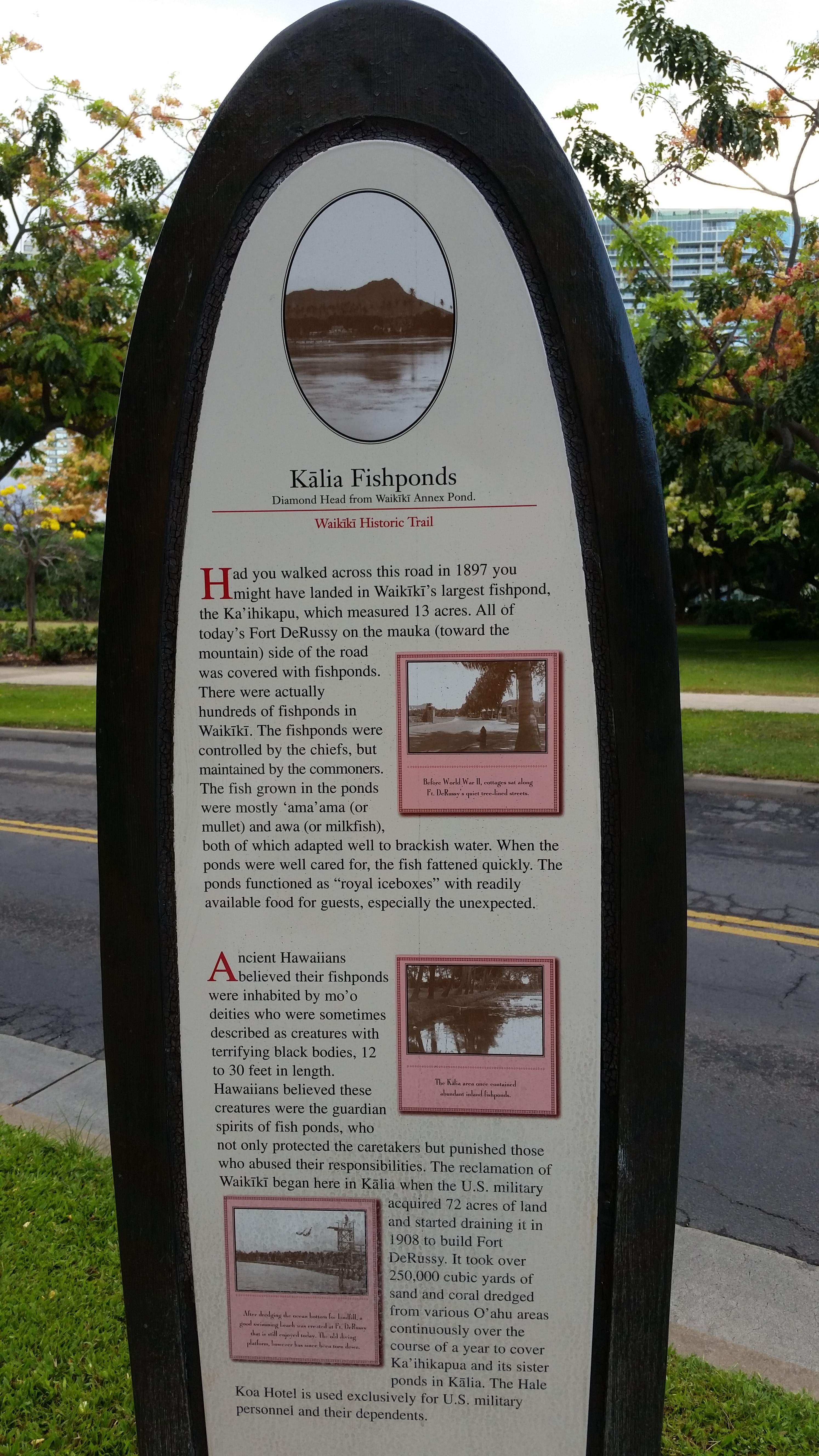 Historical marker for Kalia fishponds formerly located at the site of Fort DeRussy